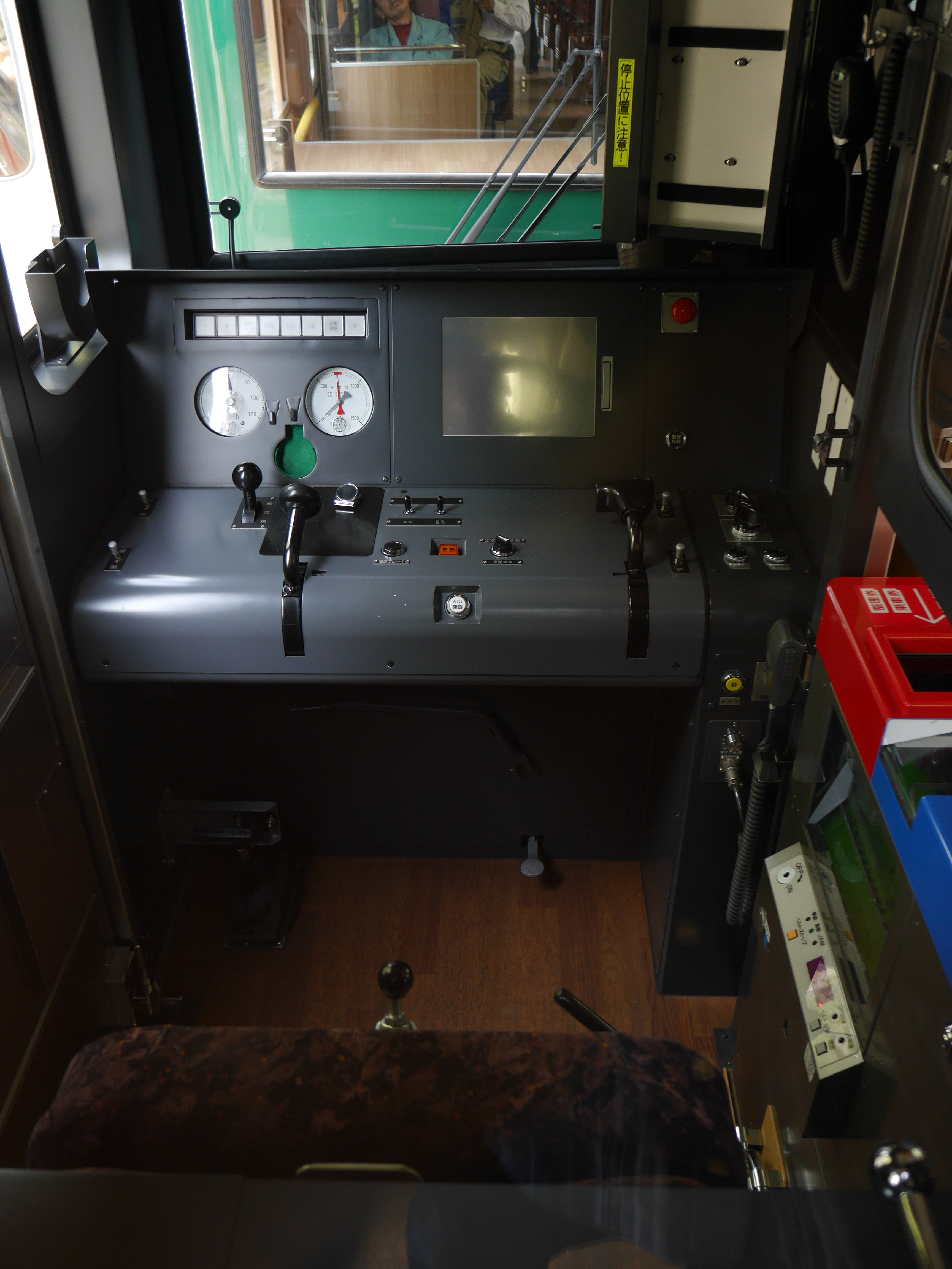 Driver's cabin Shigaraki Kogen Railway SKR401